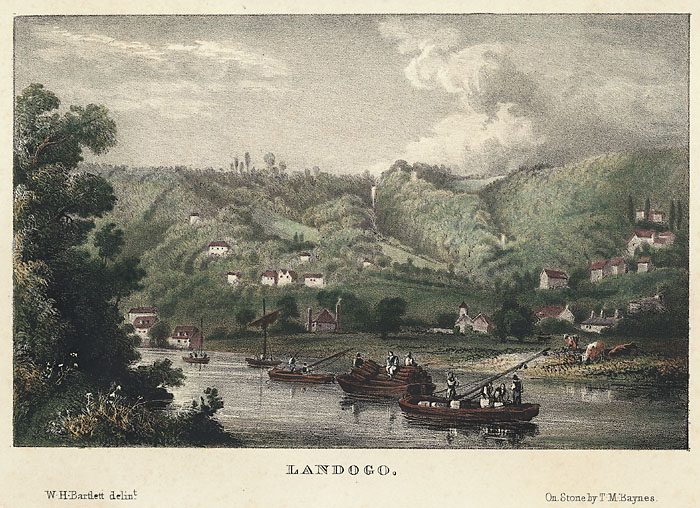 1 print : lithograph, col ; image size 101 x 157 mm., paper size 162 x 202 mm.